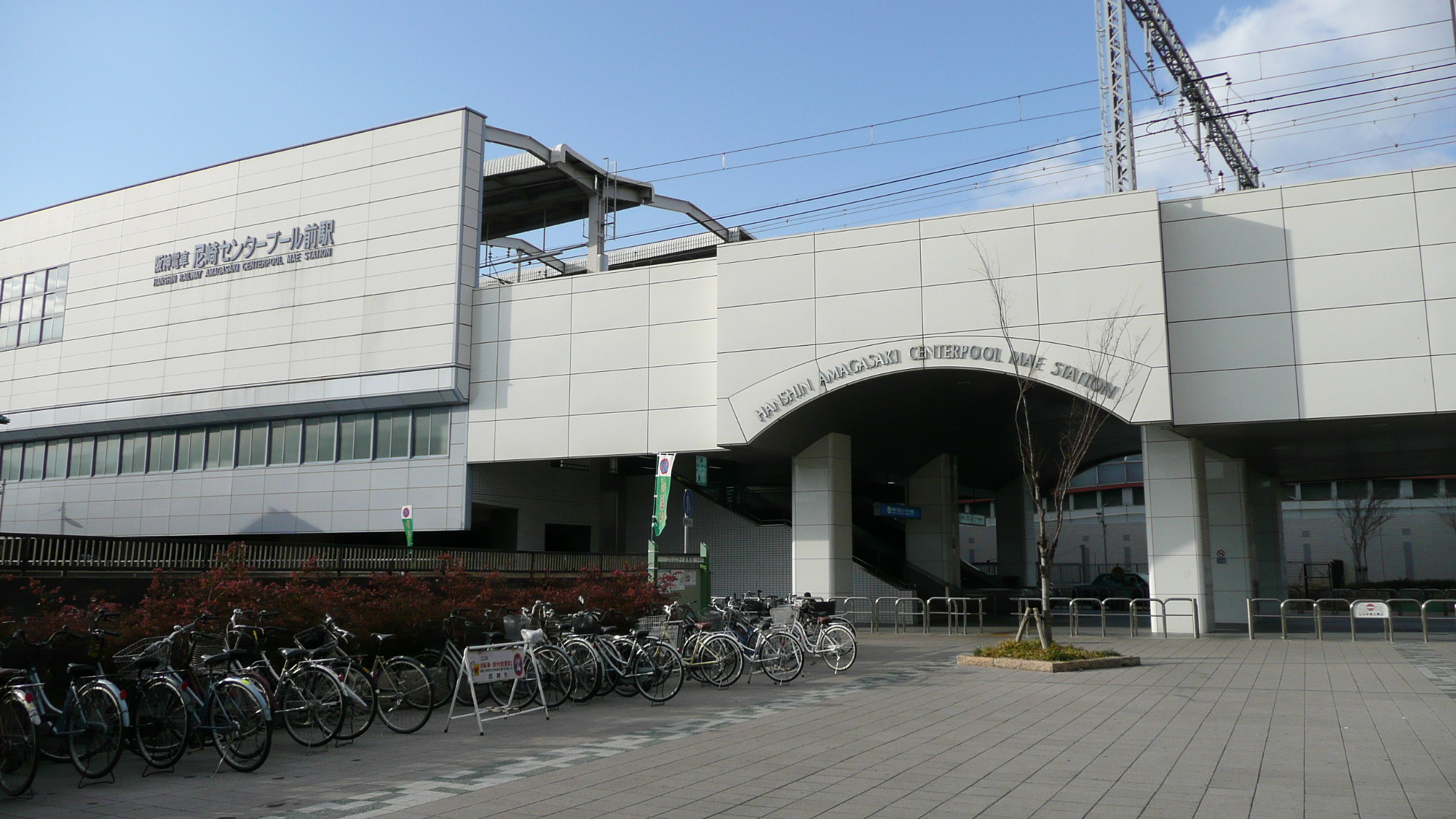 Hanshin Electric Railway,Main Line,Amagasaki Centerpool Mae Station. /阪神本線尼崎センタープール前駅・駅舎